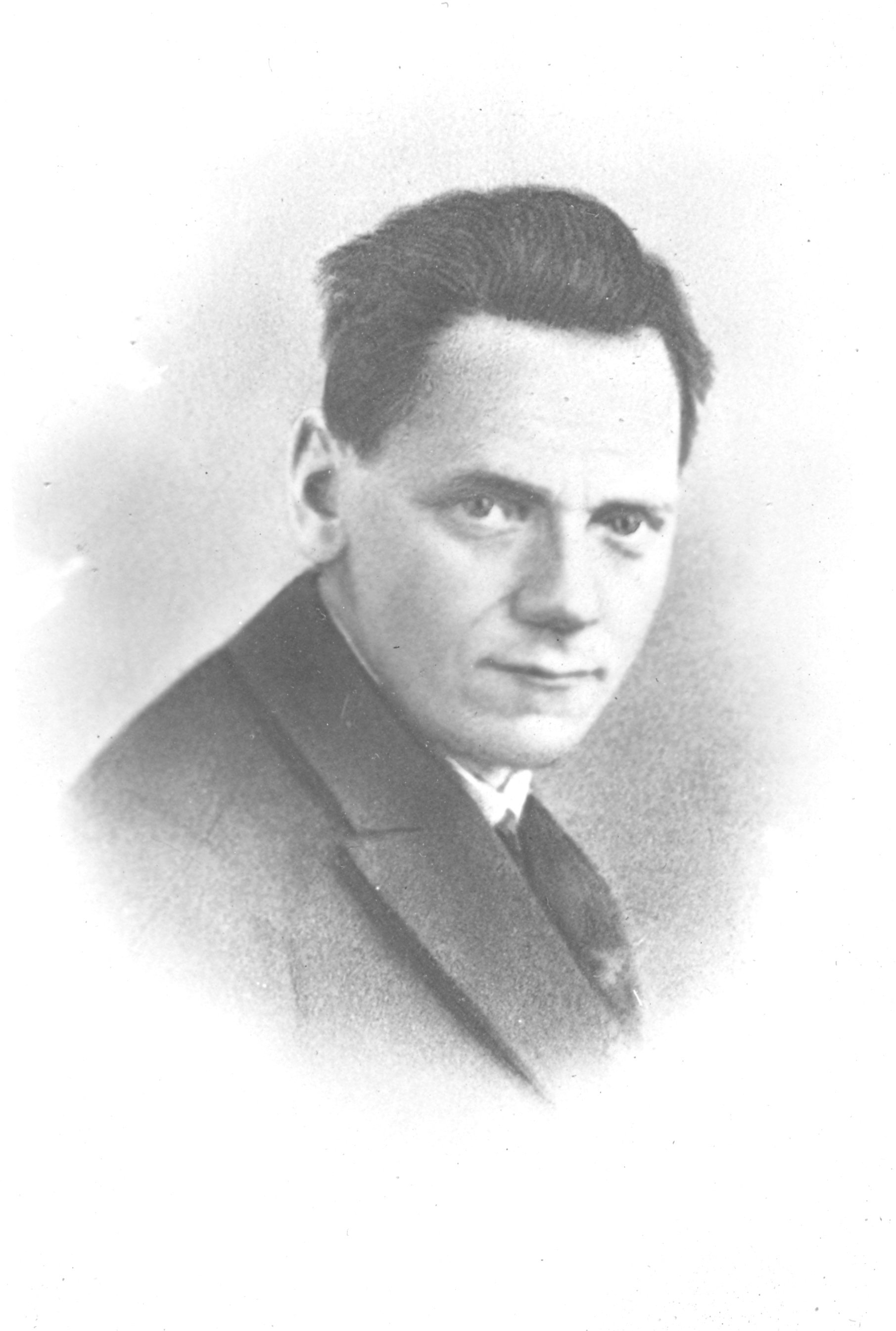 portrait of A.B. van Tienhoven ca. 1920